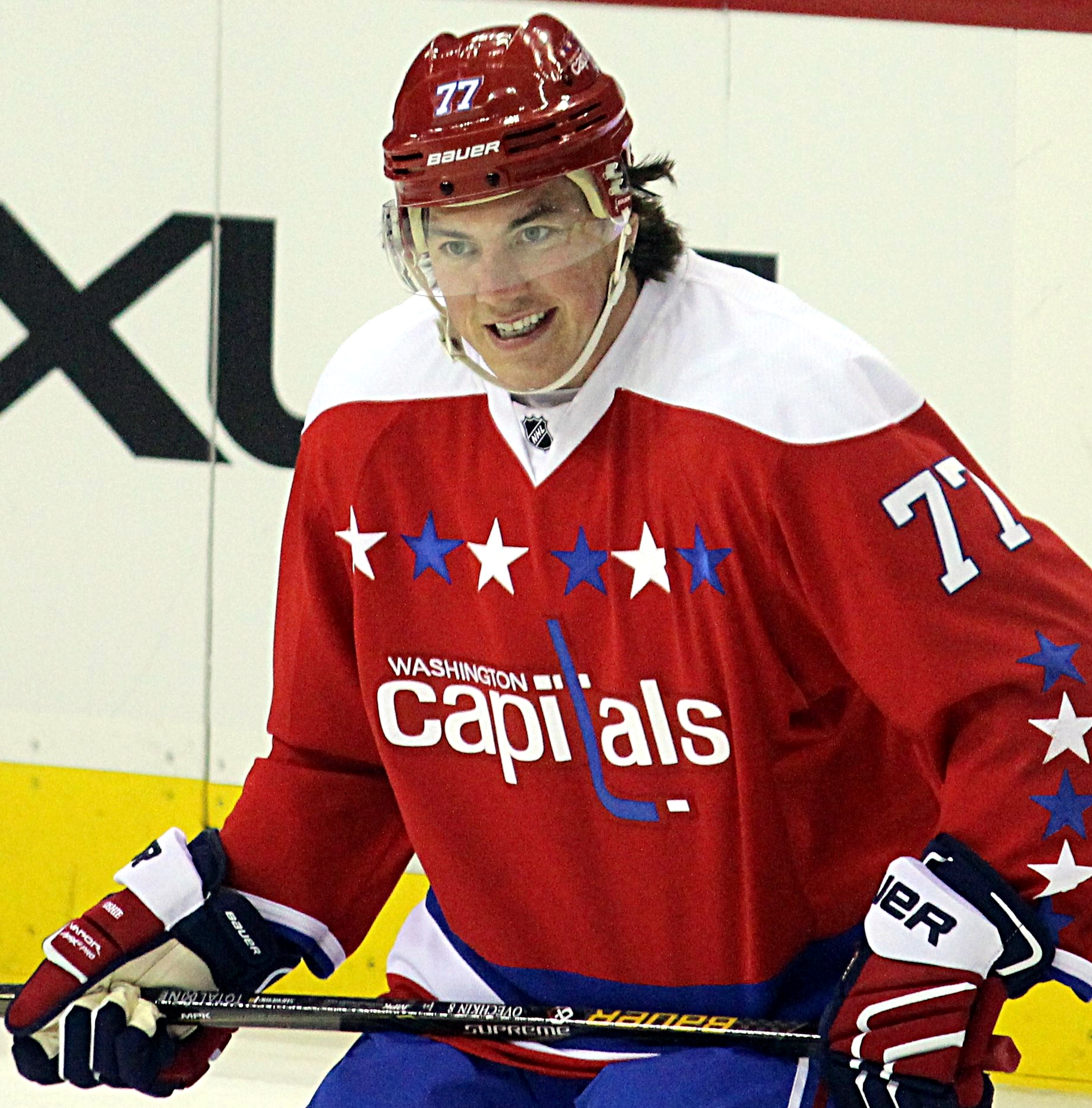 Washington Capitals forward T.J. Oshie during a game against the Pittsburgh Penguins, Thursday, April 7, 2016 at Verizon Center in Washington, D.C.